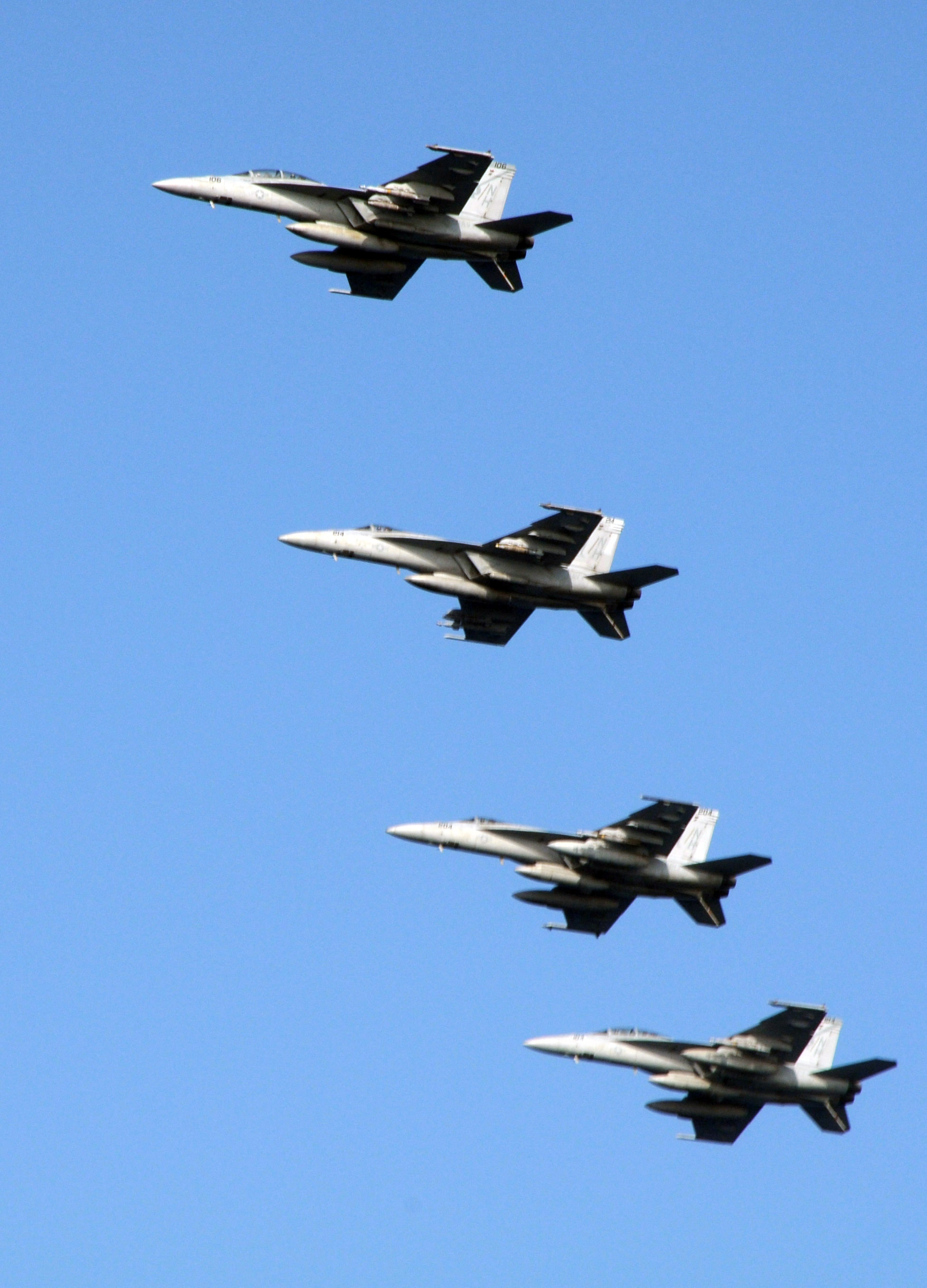 INDIAN OCEAN (Oct. 18, 2009) Aircraft assigned to Carrier Air Wing (CVW) 11 fly in formation over the aircraft carrier USS Nimitz (CVN 68). The Nimitz Carrier Strike Group is on a routine deployment to the U.S. 5th Fleet area of responsibility. (U.S. Navy photo by Mass Communication Specialist 3rd Class John Phillip Wagner Jr./Released)